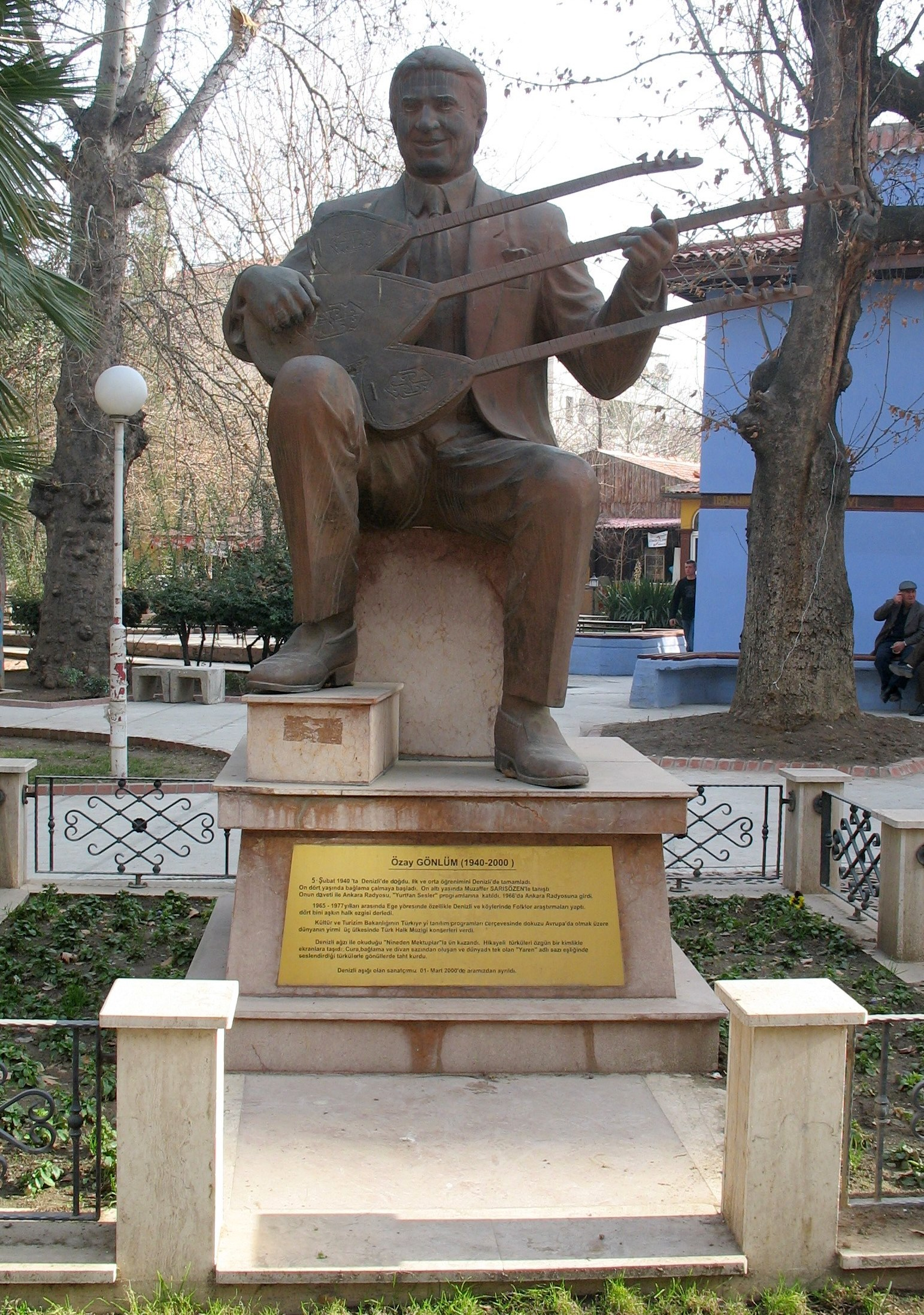 The statue of Özay Gönlüm in Çatalçeşme, Denizli